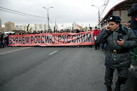 About 7,000 Russian nationalists marched, waving Czarist flags, and chanting such anti-immigrant slogans as 'Migrants Today, Occupiers Tomorrow,' in Moscow, November 4, 2011.